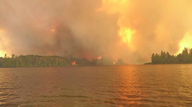 View of the fire from Lake 3 near Campsite 7, 1813 hours